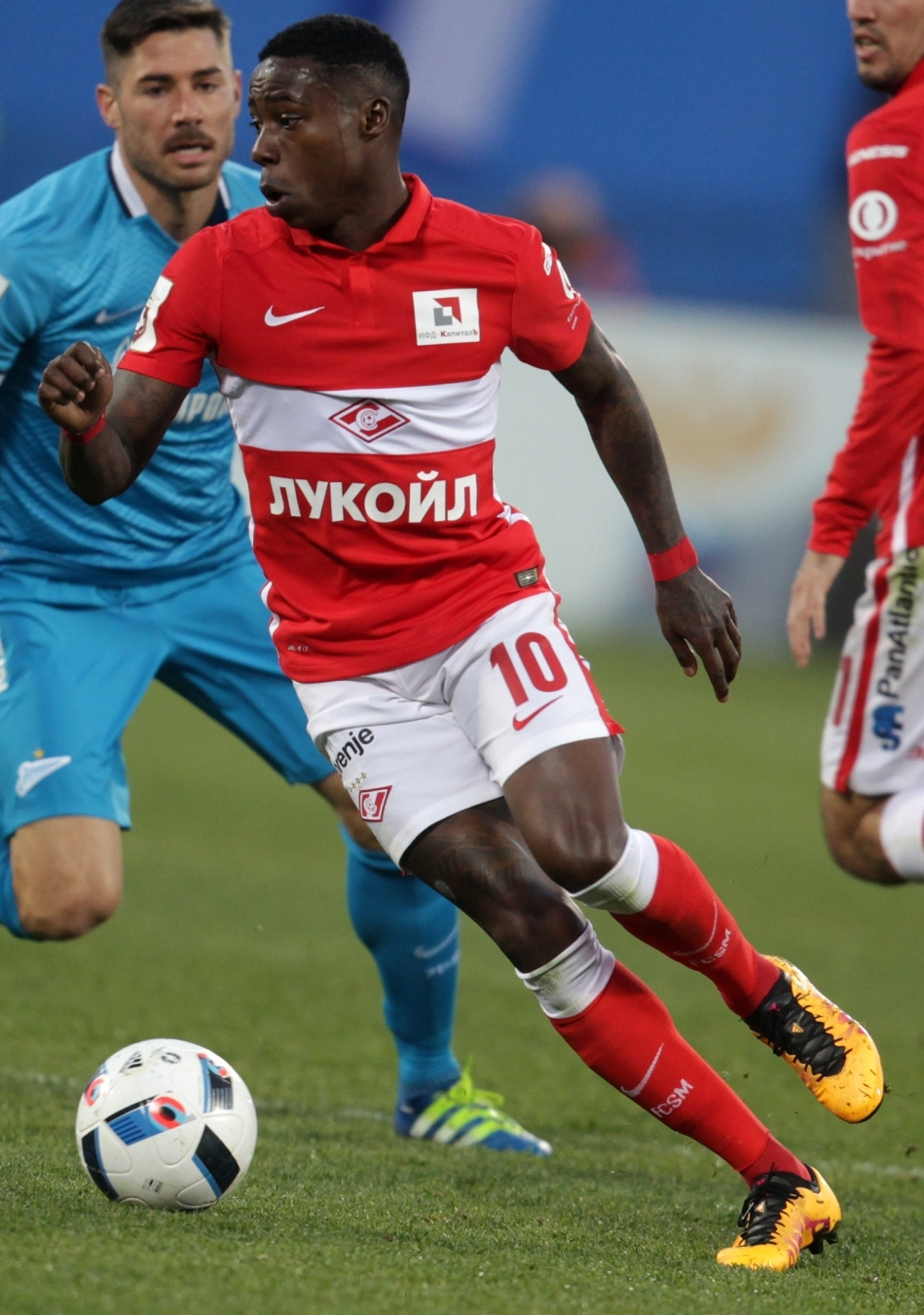 Quincy Promes